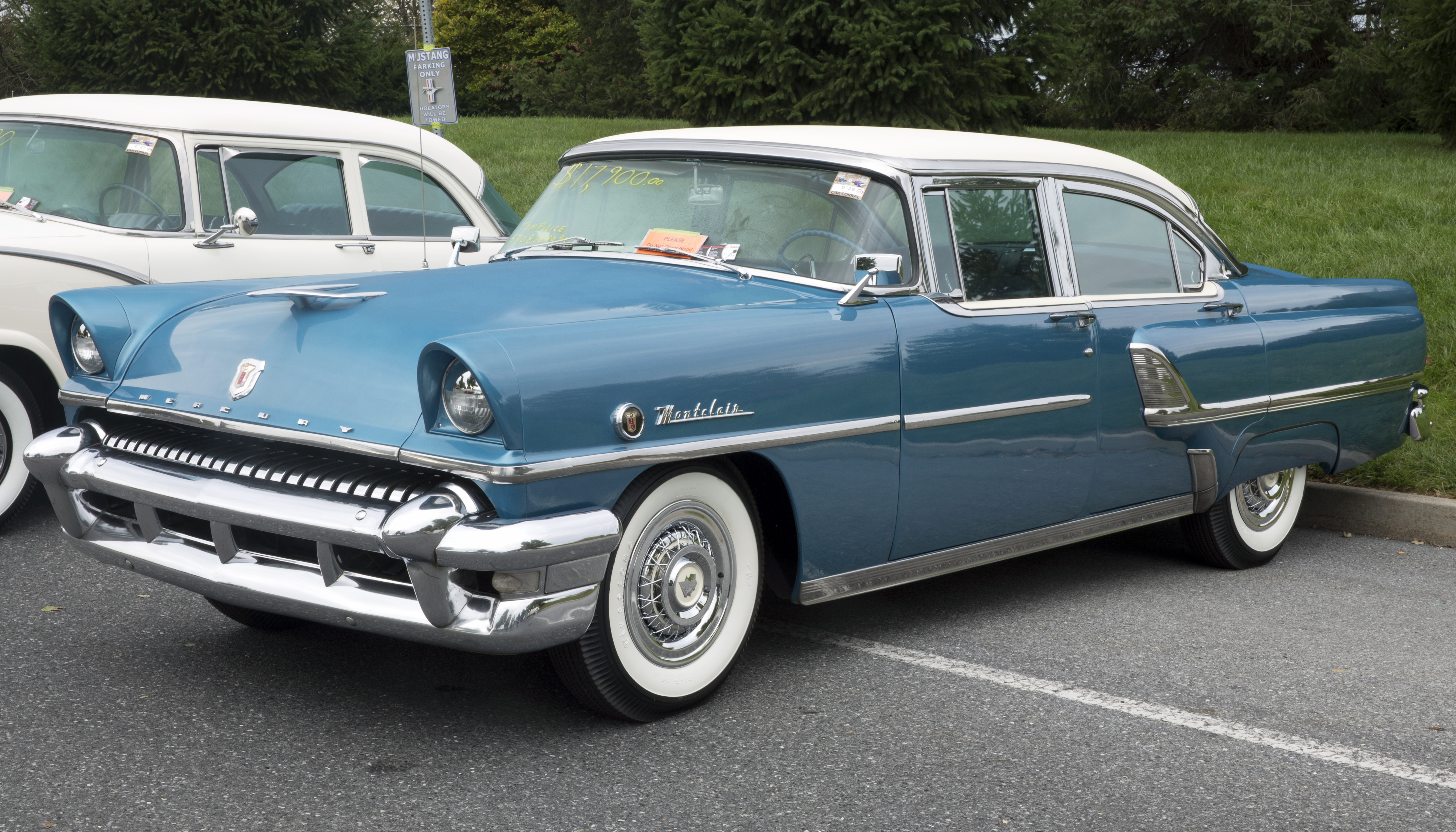 A 1955 Mercury Montclair 4-door sedan offered for sale at Hershey 2019.